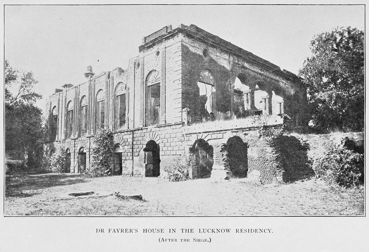 Dr Joseph Fayrer's home in Lucknow after the 1857 siege